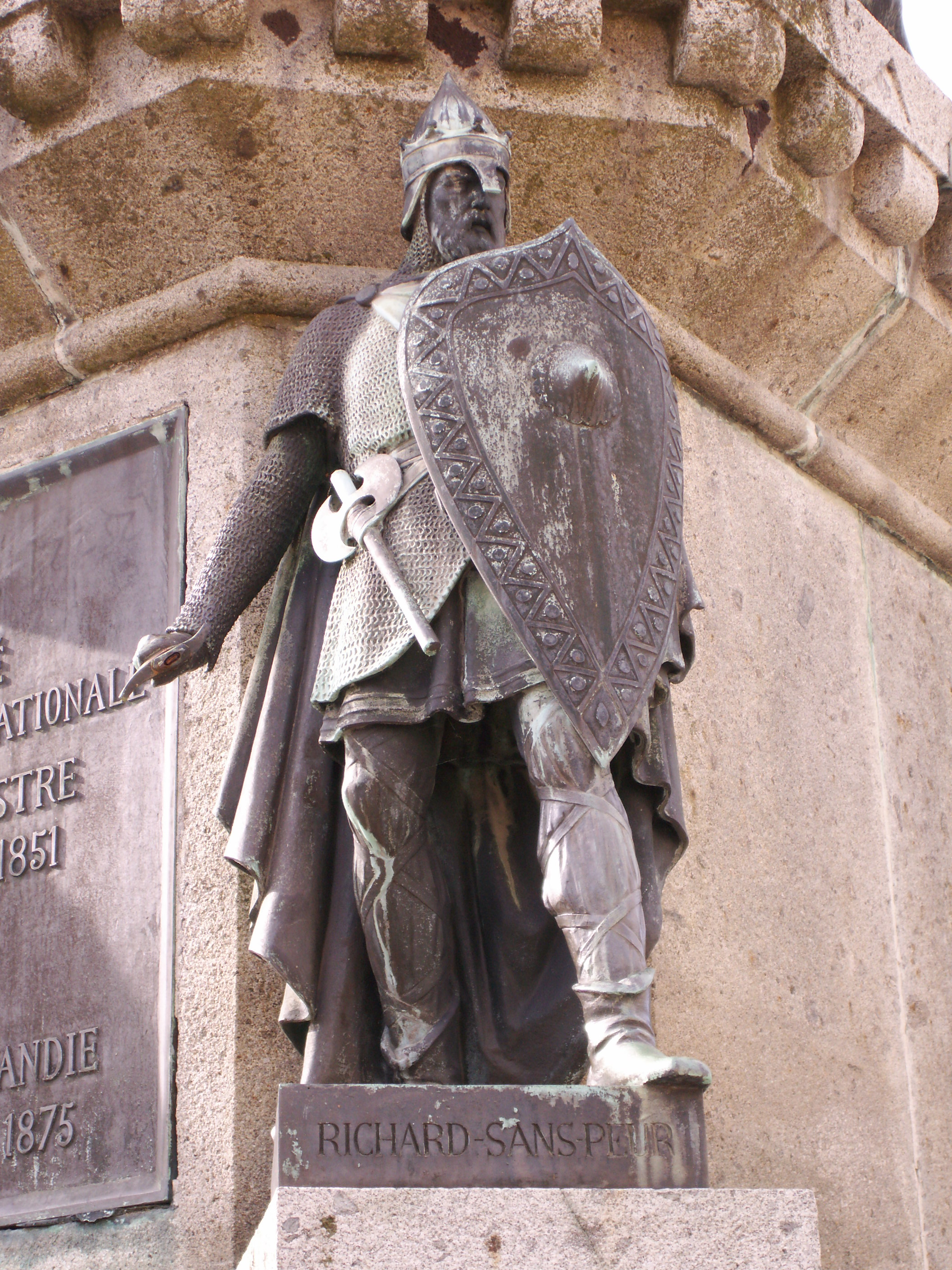 Photo of Richard the Fearless as part of the Six Dukes of Normandy statue in the Falaise town square.